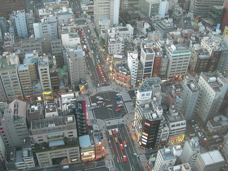 Looking down at Hamamatsucho, Tokyo, Japan. Taken by me, Ricky W.